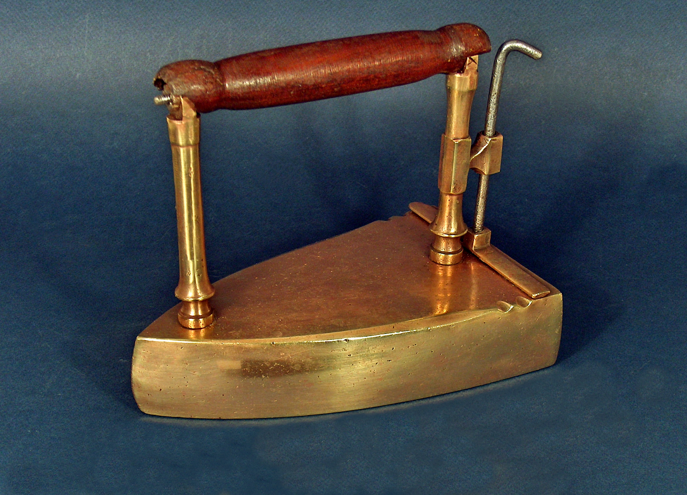 Brass iron with iron insert. It is located in Museum of Science and Technology Belgrade.